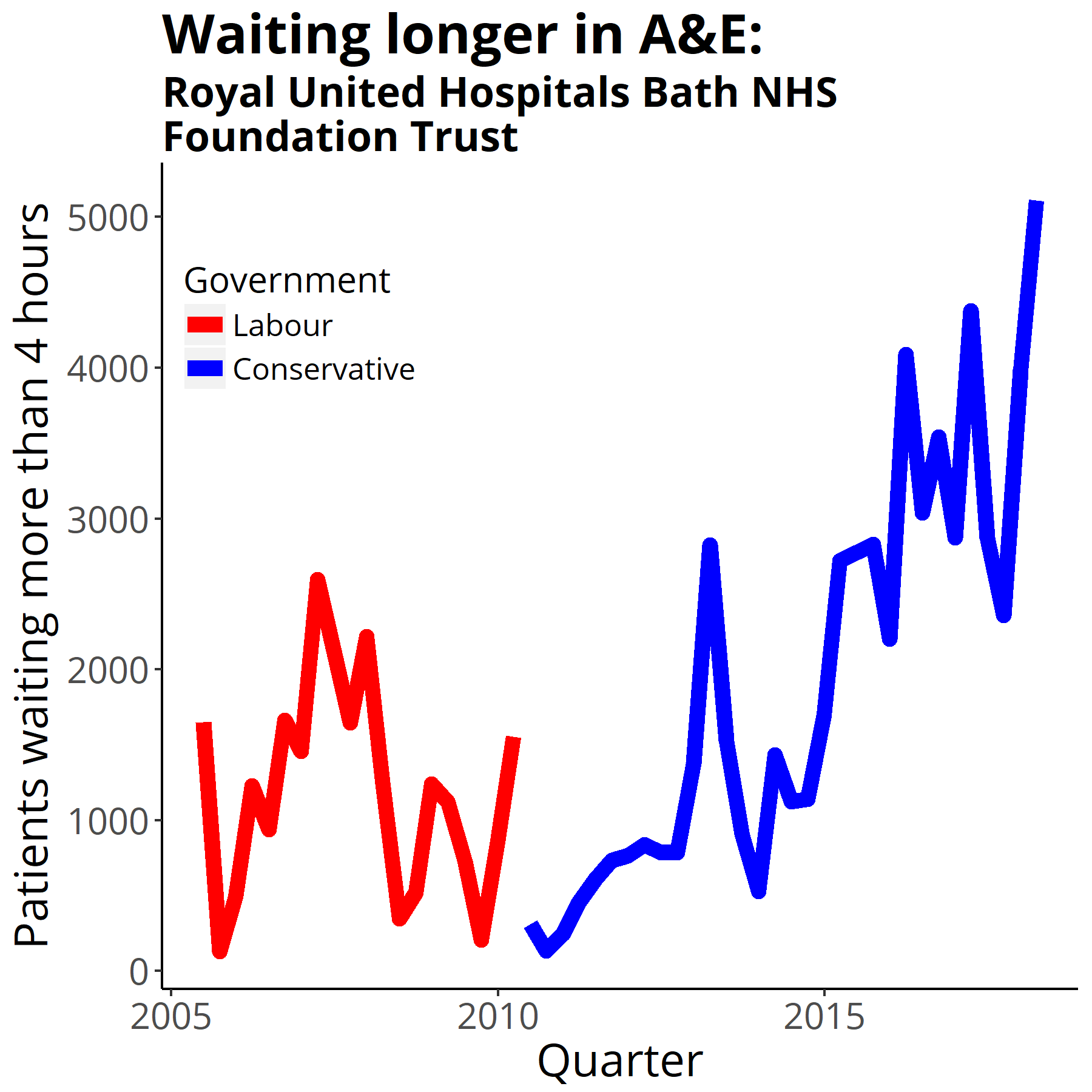 Four-hour target in the emergency department quarterly figures from NHS England Data from